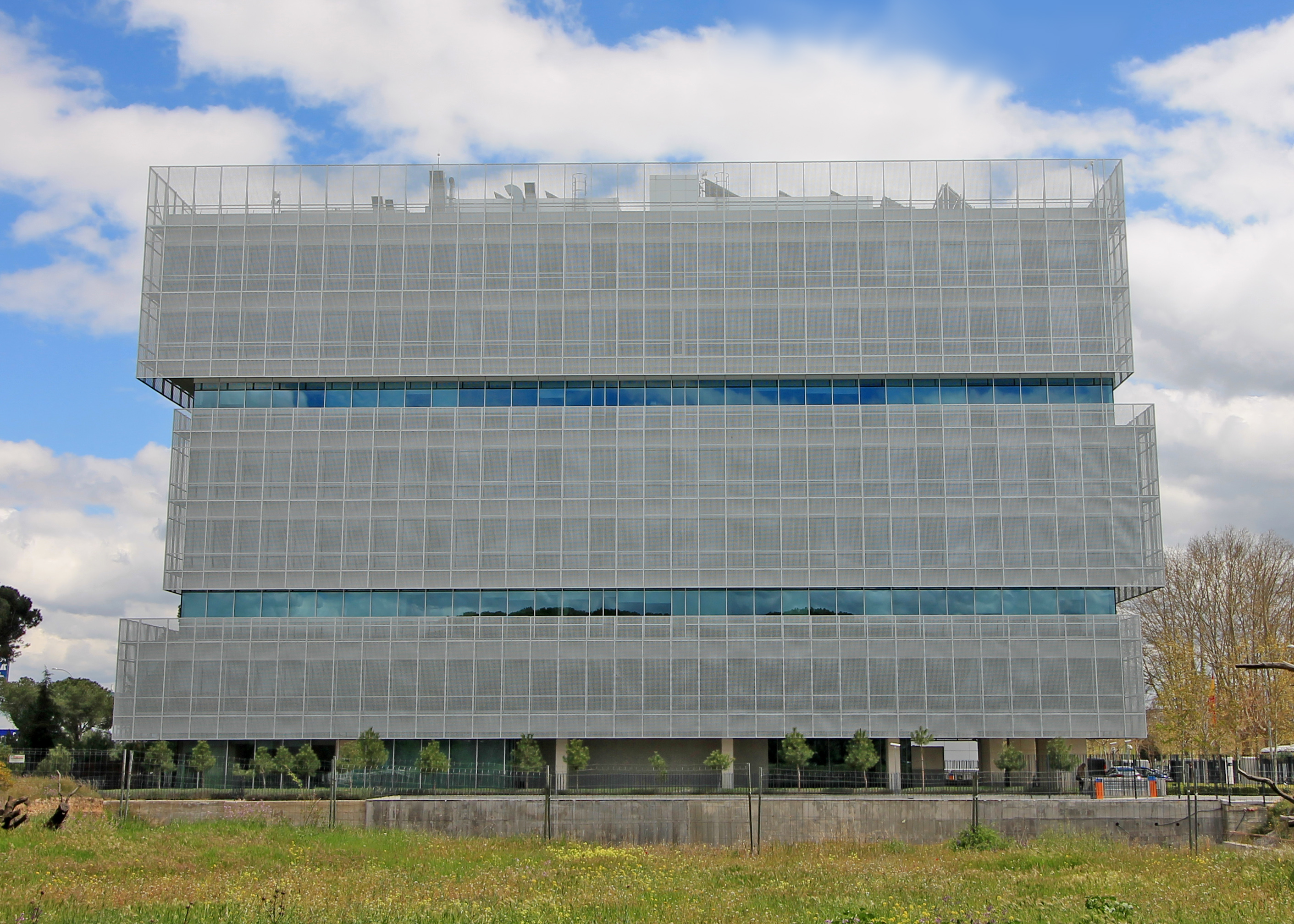 West façade of ENAIRE's headquarters. Building was designed by Estudio Lamela (architecture firm) and completed in 2011.